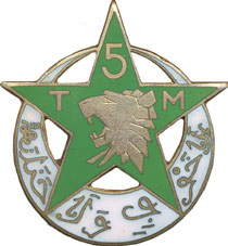 Regimental badge of the 5rd Rifle Regiment Moroccans (France).